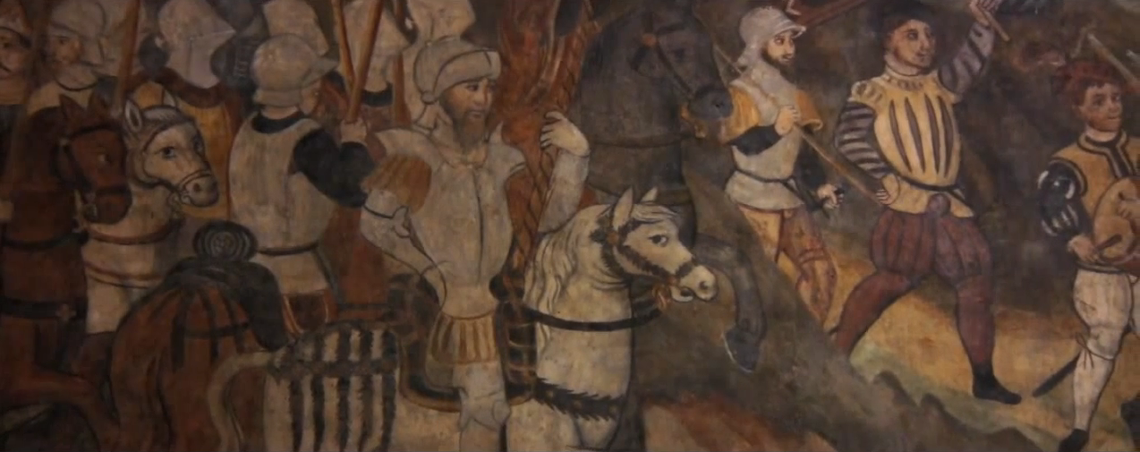 Fresco by Giovanni Todisco (Lucania, 16th Century)